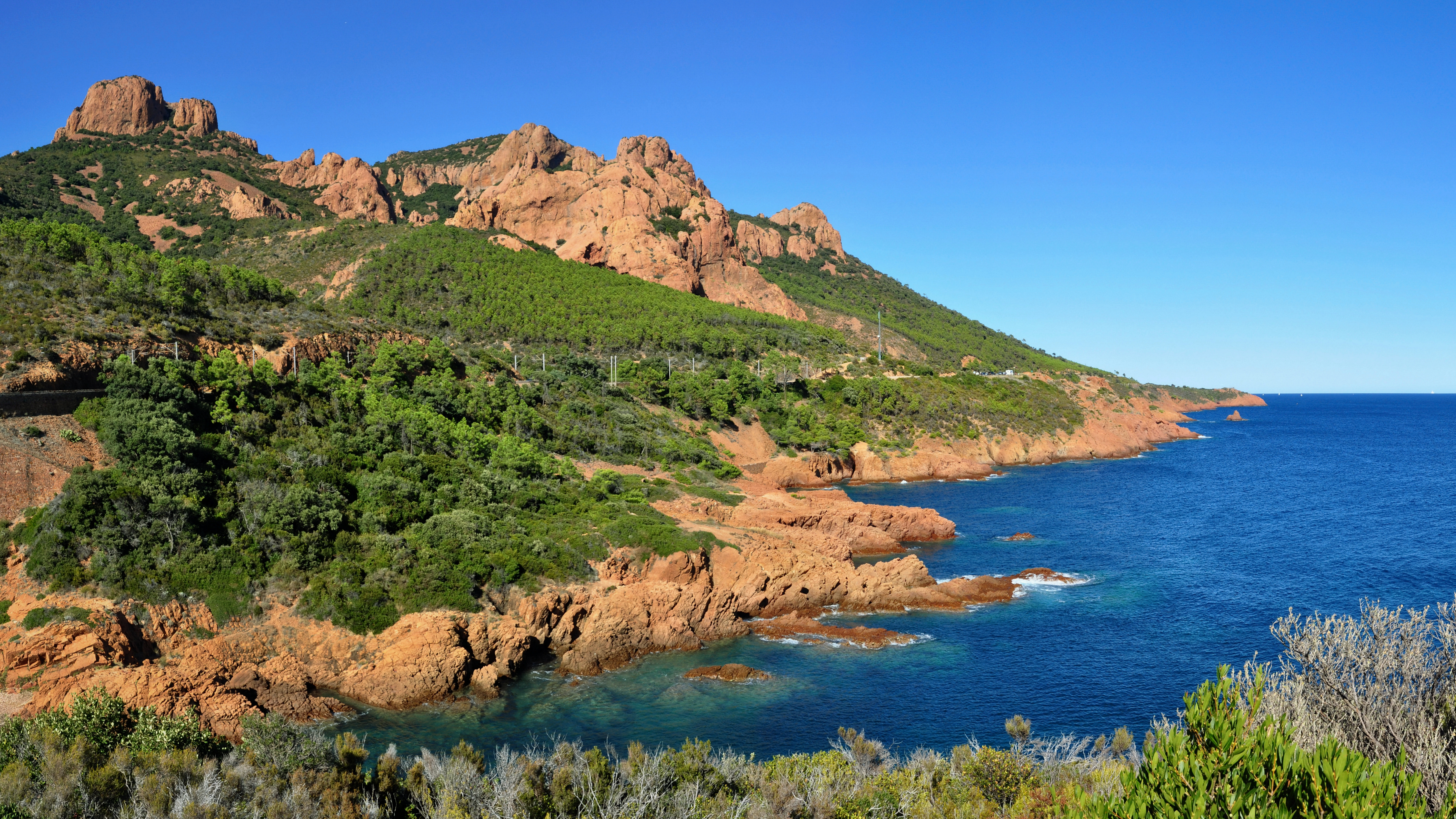 The calanque (cliff bay) of Petit Caneiret, in Anthéor near Saint-Raphaël, which could be find at the foot of the Massif de l’Esterel in the French Riviera (Var, Provence-Alpes-Côte d’Azur, France).